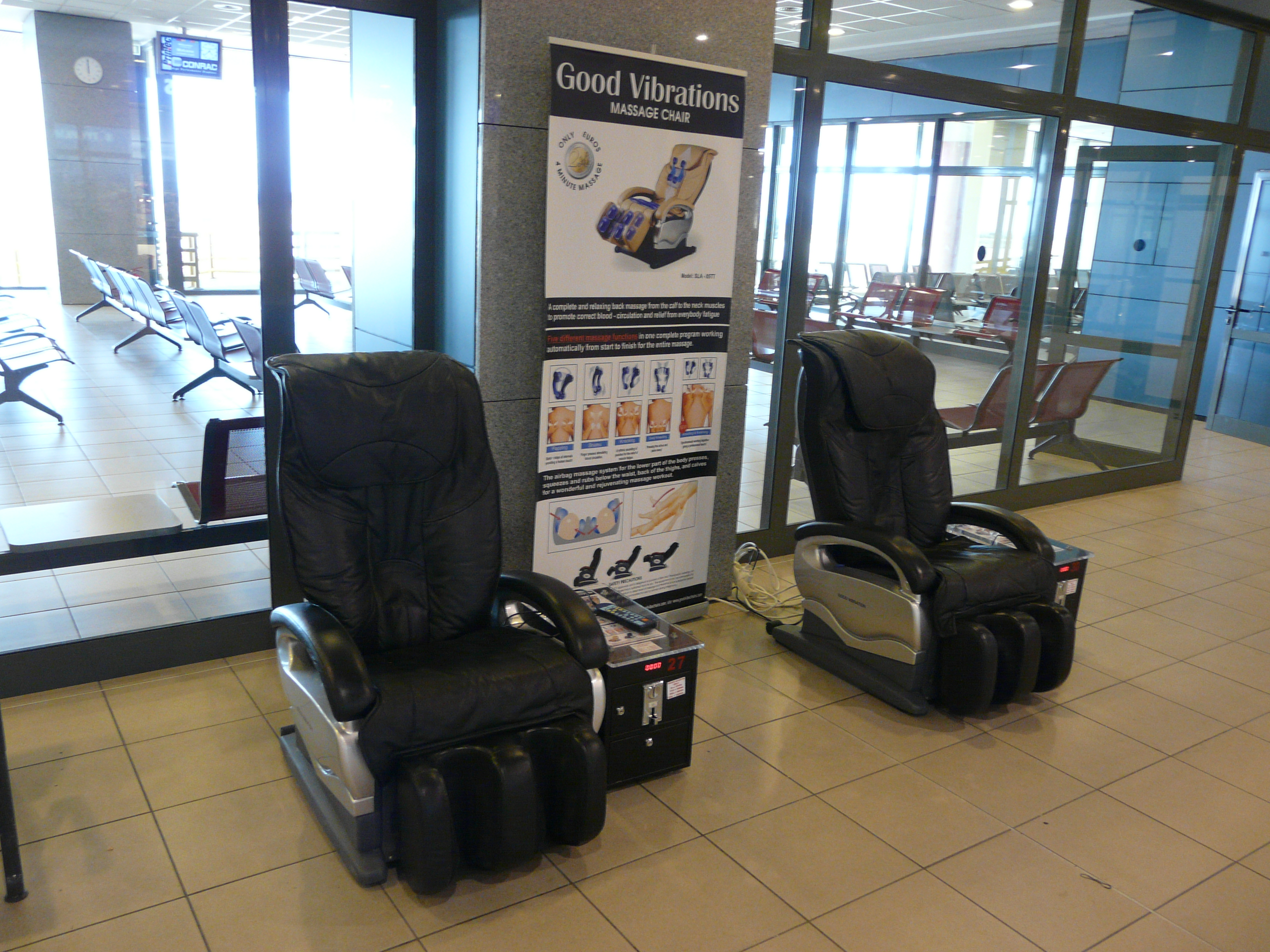 Rhodes International Airport, "Diagoras", 2009.